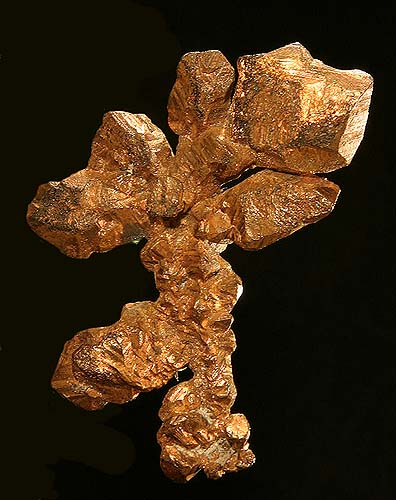 Copper Locality: Ray Mine, Scott Mountain area, Mineral Creek District (Ray District), Dripping Spring Mts, Pinal County, Arizona, USA (Locality at ) This is a copper from Ray of a rather untradtitional form and of high quality, i think. It comes from the second collection of Steve Neely, who got it from Al over a decade ago. It came to me through Steve actually, rather than from Al with the rest of the specimens shown here. It is exceptionally well-formed on both sides, and can be displayed from either side with equal effect. No matrix (its propped on putty in the photo). One of the more unique Ray Coppers!, compared to many other Ray coppers I have seen! 5.25 x 4 x 1 cm